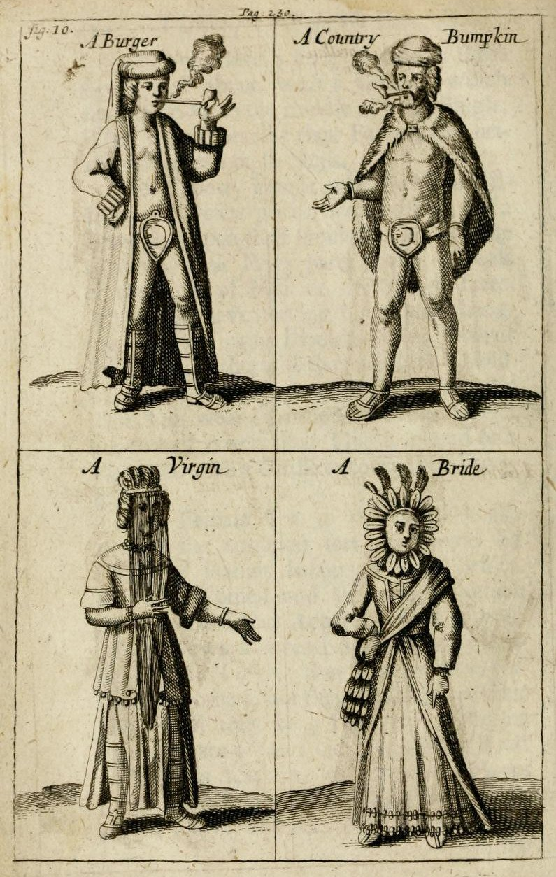 Inhabitants of Formosa. from the book by Psalmanazar